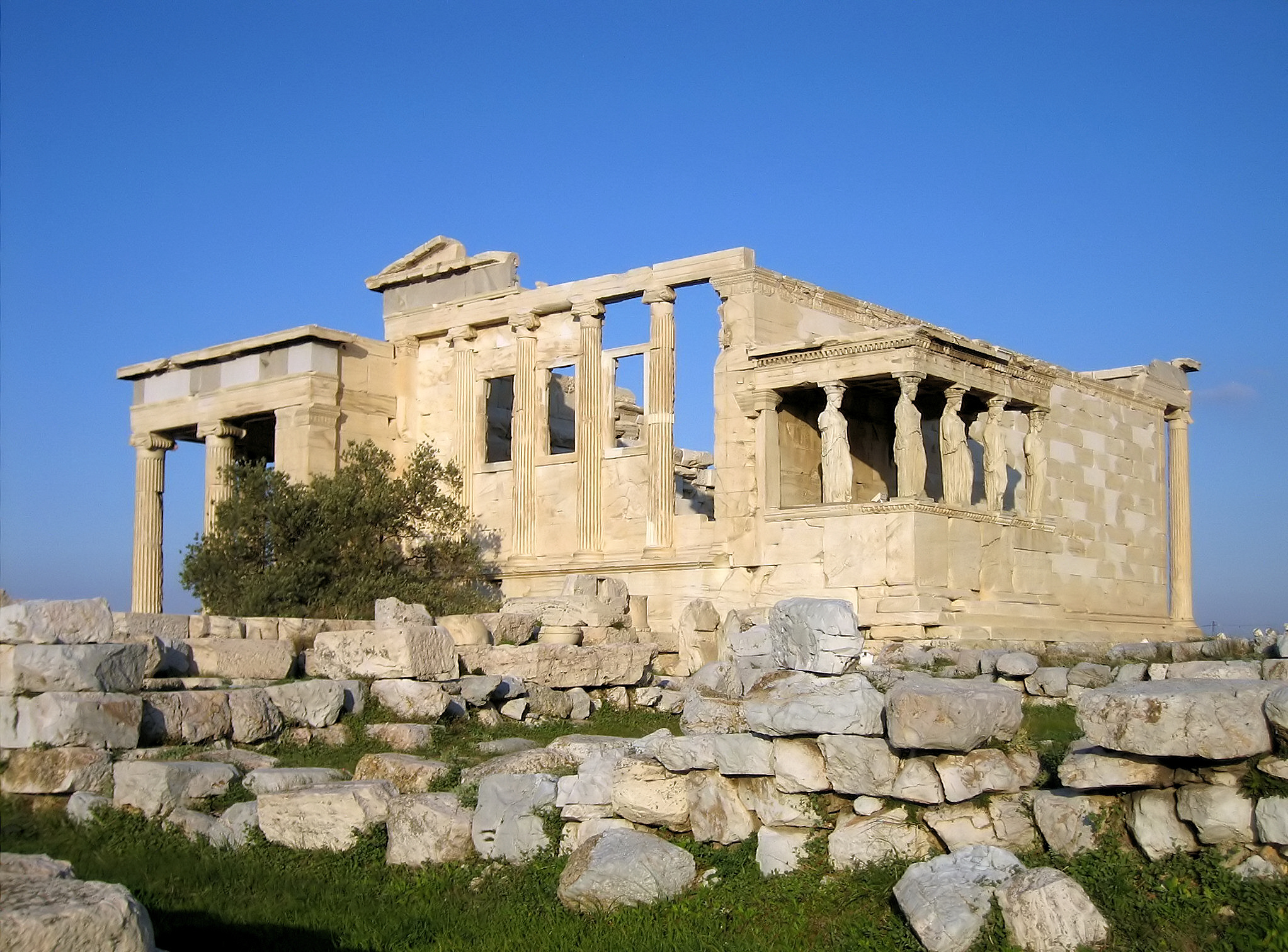 Erechtheum from western-south.